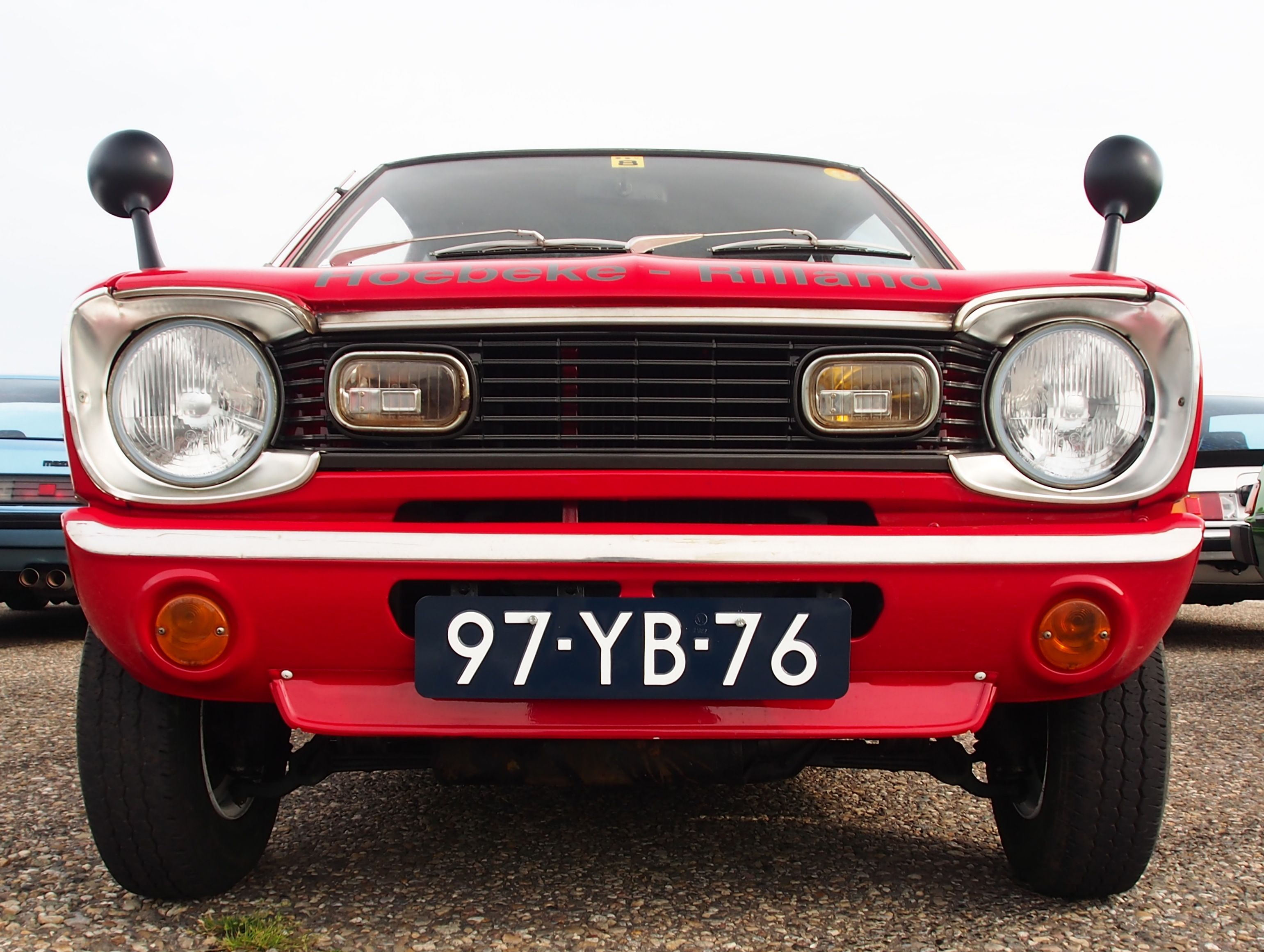 Photographed at the Nationaal Oldtimer Festival Zandvoort 2014, The Netherlands.